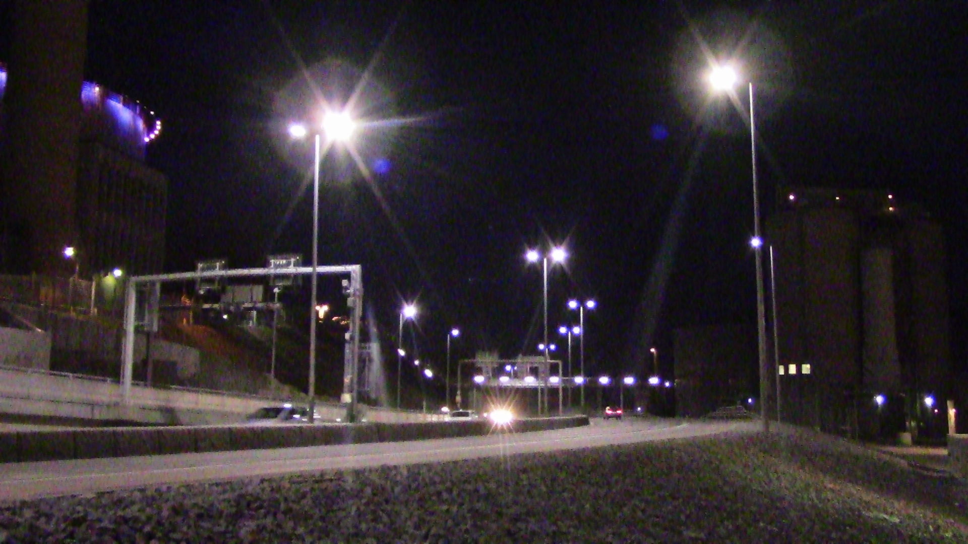 Swedish national road 277 at Värta's harbour. It runs from Stockholm's Roslagstull to Lidingö's Gåshaga.